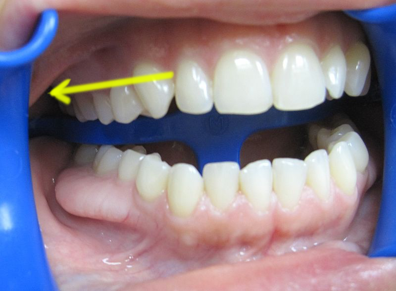 Dental local anesthesia by Laguardia